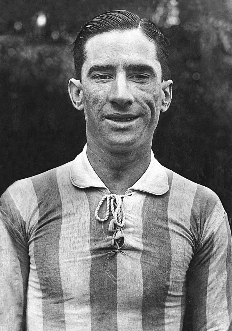 Argentine footballer Pedro Ochoa, smilling for the camera.